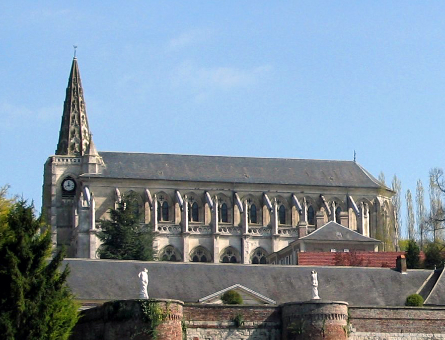 Long (Somme, France).